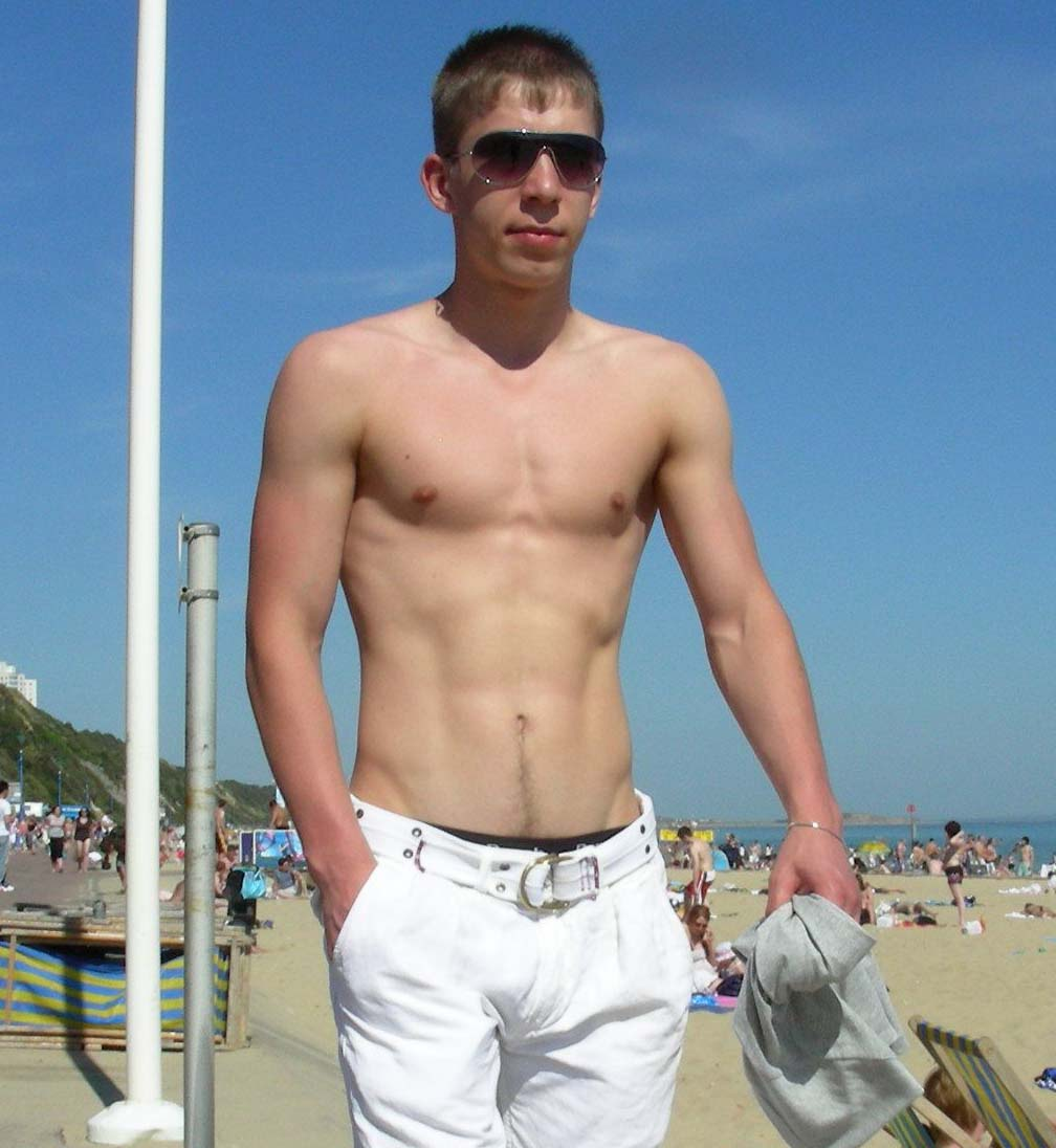 At the beach.